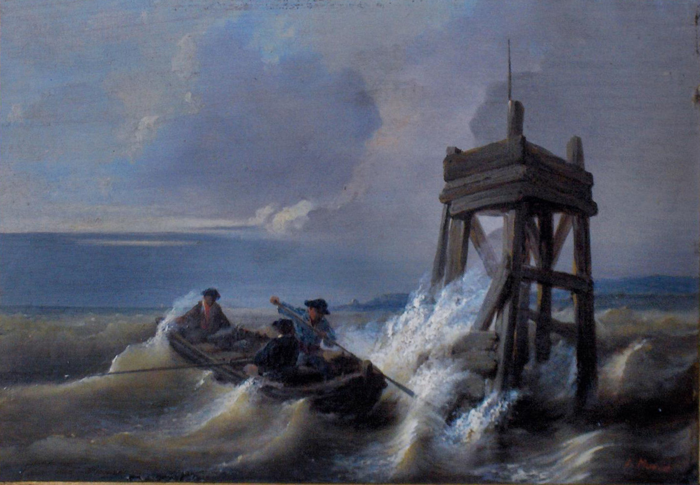 "Stormy weather" by François Musin (1820-1888); private collection.